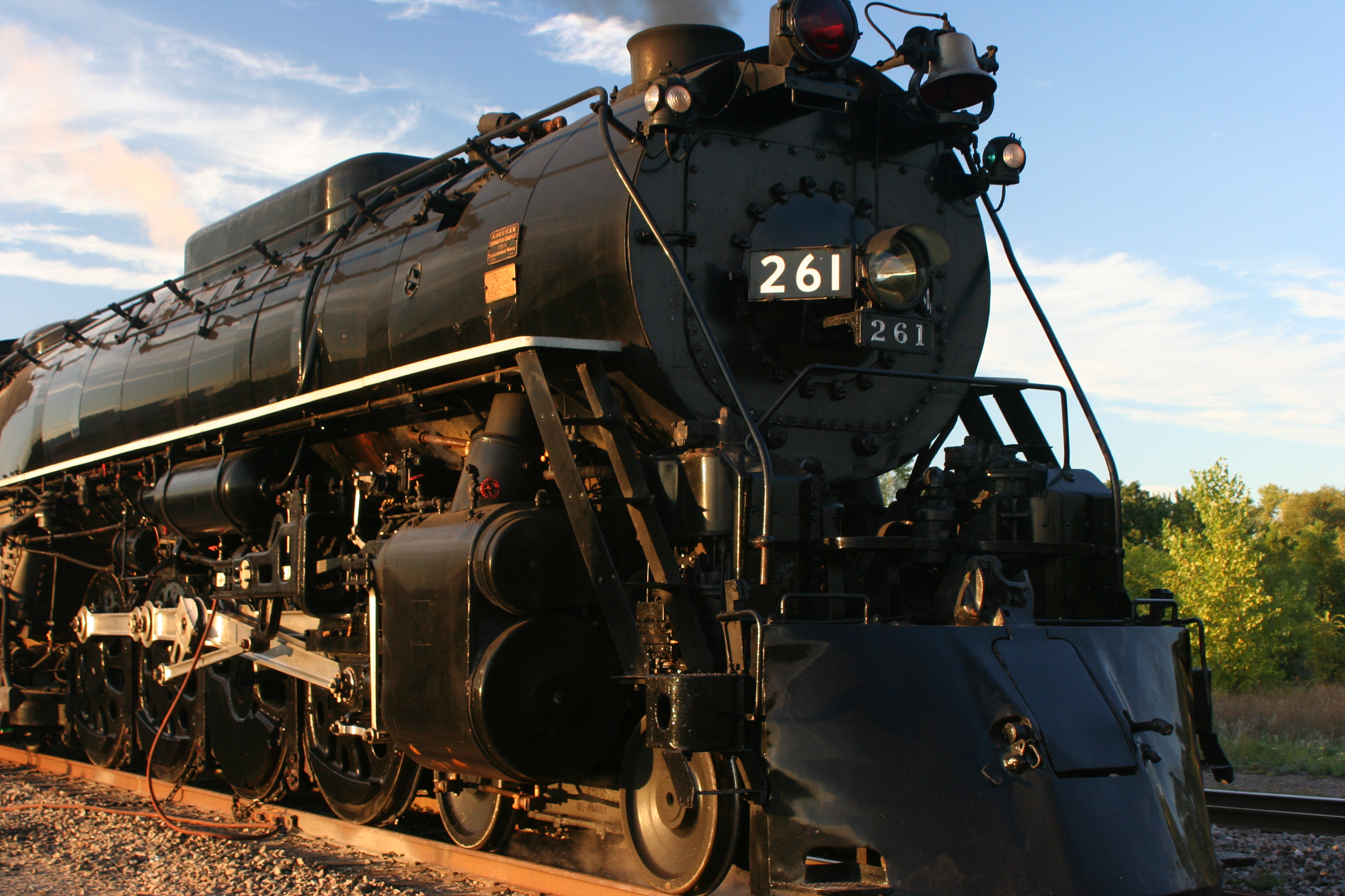 MILW 261 front at Harrison Street in Minneapolis, MN